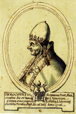 Sketch of Pope Innocent III by 17th century artist